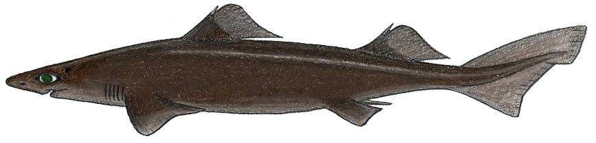 Centrophorus acus